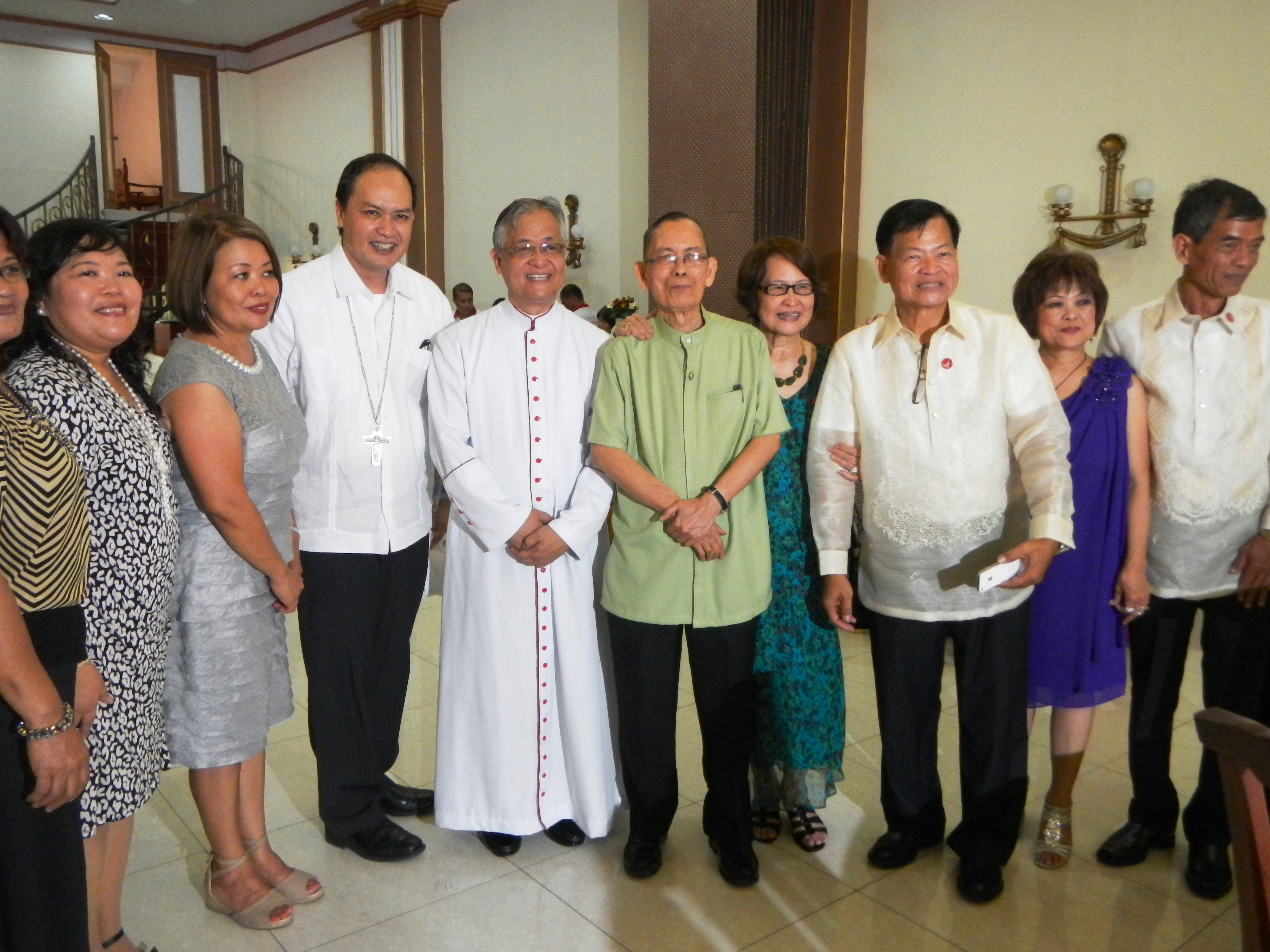 Reception, is included in the Canonical Installation in Archbishop's Chapel and Archdiocesan Chancery City of San Fernando, Pampanga former residence of Luis Wenceslao Dison and Felisa Hizon [1] - present were Governor Lilia Pineda, Mayor Edgardo Pamintuan and Mayor Edwin Santiago of Angeles City and the City of San Fernando and Mayor Marino Morales of Mabalacat City, respectively; Important Notes: Florentino Lavarias Florentino Galang Lavarias, D.D The Most Reverend Florentino Lavarias D.D. Archbishop-elect of San Fernando is the fourth and current Metropolitan Archbishop of the Roman Catholic Archdiocese of San Fernando succeeded Paciano Aniceto as the Archbishop of San Fernando. The Rite of Liturgical Reception and Canonical Possession of Florentino Lavarias as the Archbishop was held on October 27, 2014 at the Metropolitan Cathedral of San Fernando by Papal Nuncio Archbishop Giuseppe Pinto Apostolic Nunciature to the Philippines List of ambassadors to the Philippines Holy See.